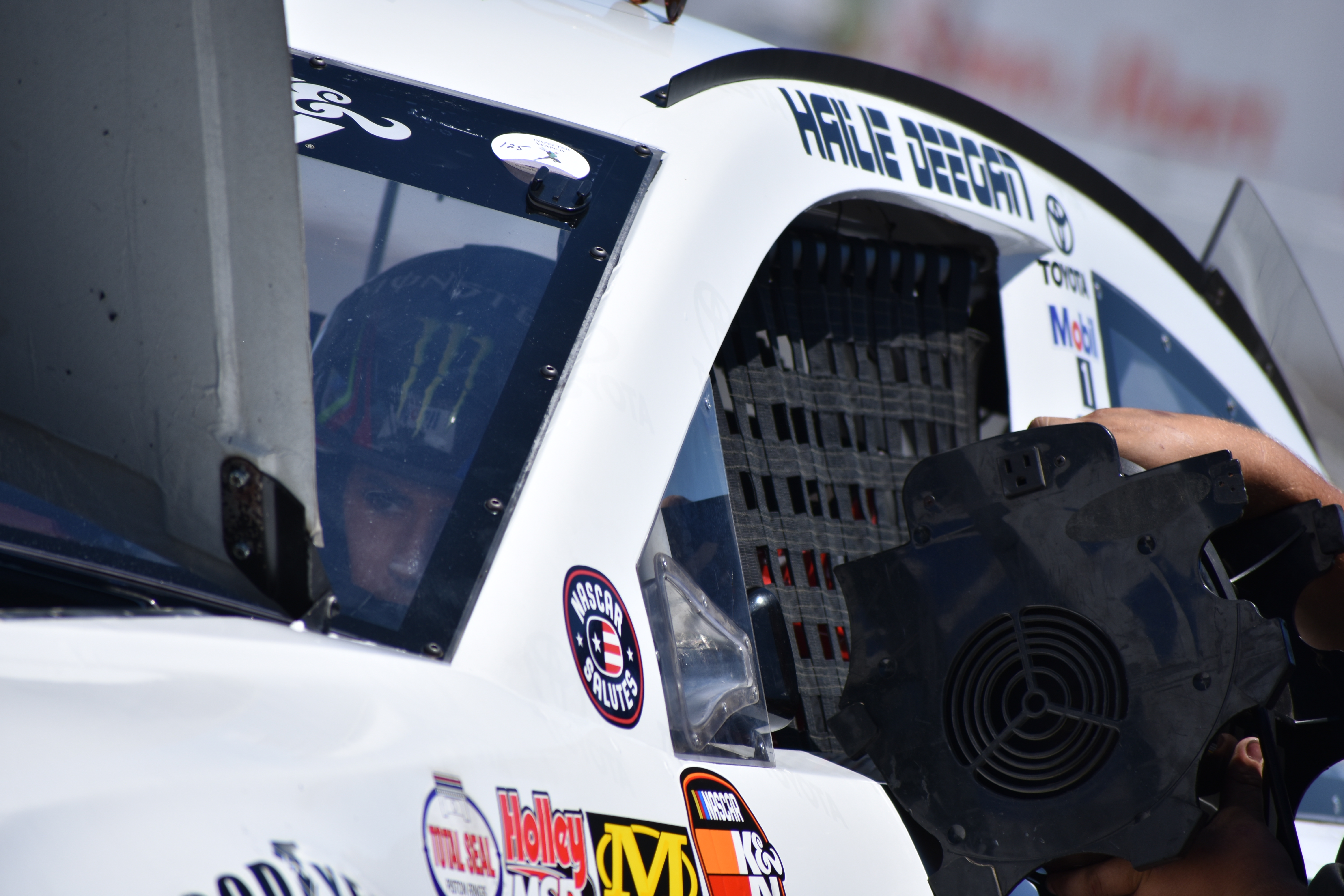 Hailie Deegan awaits to hit the track for K&N Pro Series West practice at Sonoma Raceway on June 22, 2018.